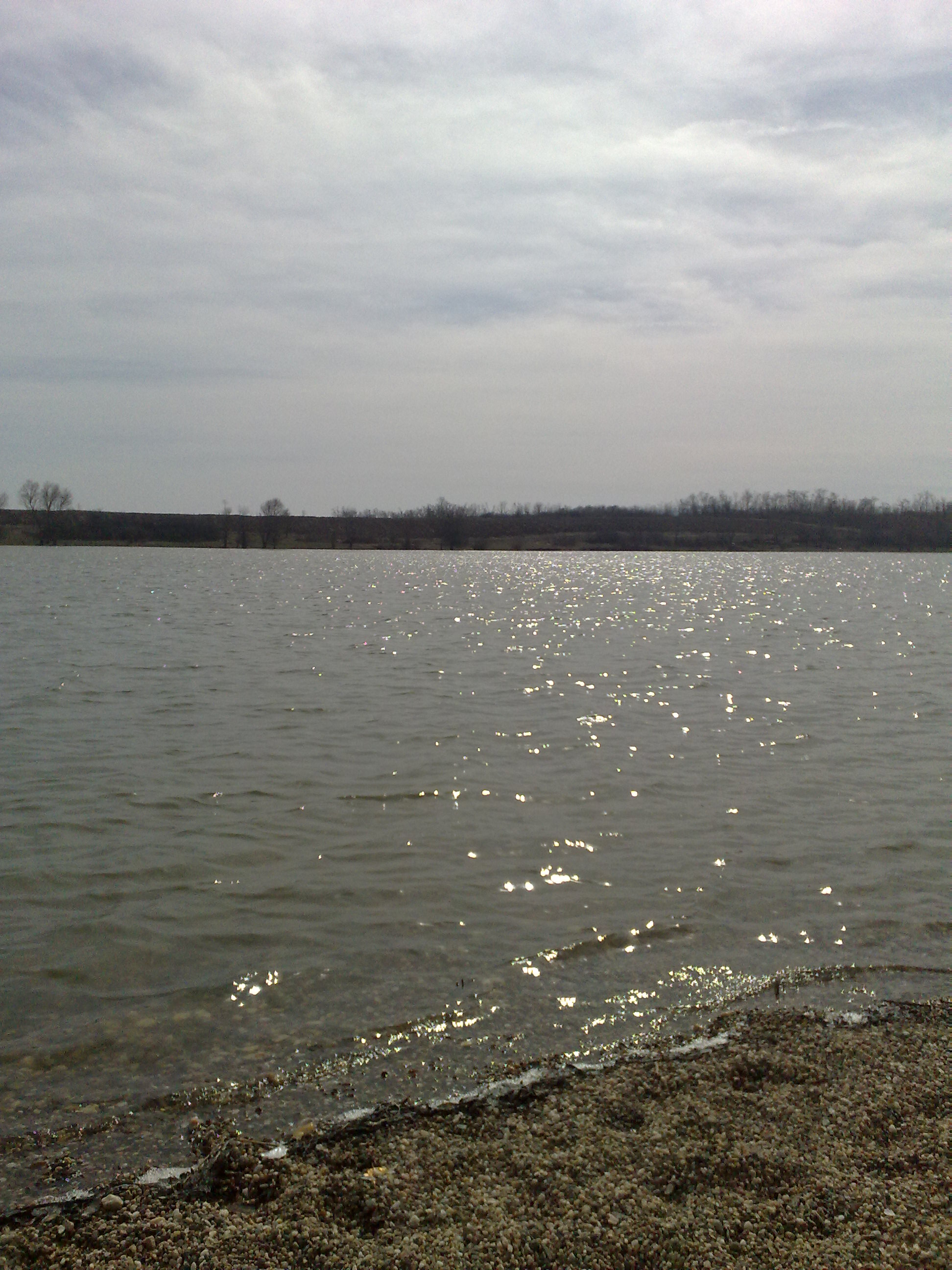 Markovac lake